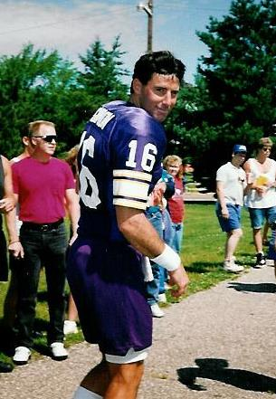 Minnesota Vikings' quarterback Rich Gannon pictured in training camp. Taken by user and released into the public domain.